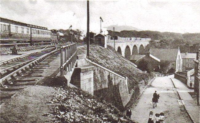 A Great Western railway 4-4-0 locomotive (probably a Duke of Cornwall class) heads a train west out of Redruth railway station in Cornwall, United Kingdom. The track in the foreground leads to one of the two goods yards, and the viaduct that crosses the town centre can be seen in front of the train.